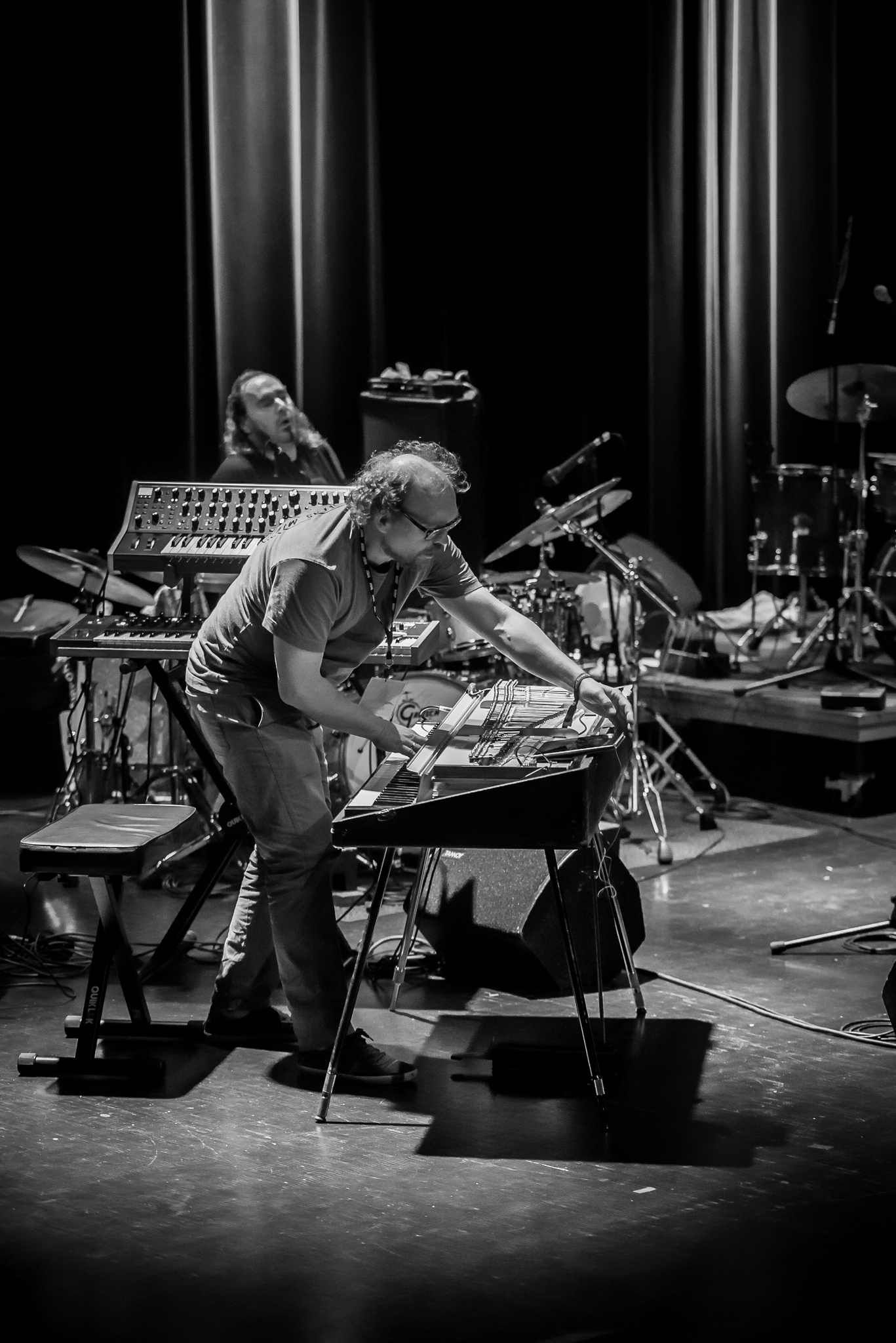 Bugge Wesseltoft and Paolo Vinaccia at Canal Street music festival, Arendal Norway, July 2015. Photo: Birgit Fostervold.